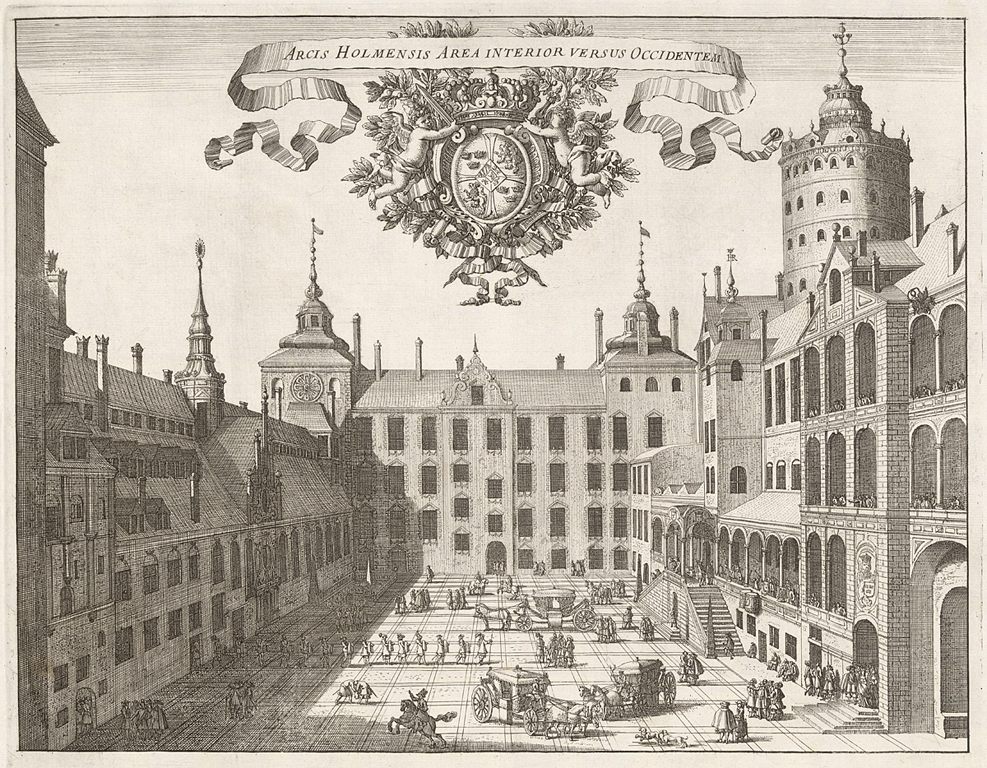 Castle "Tre Kronor" (Stockholm)